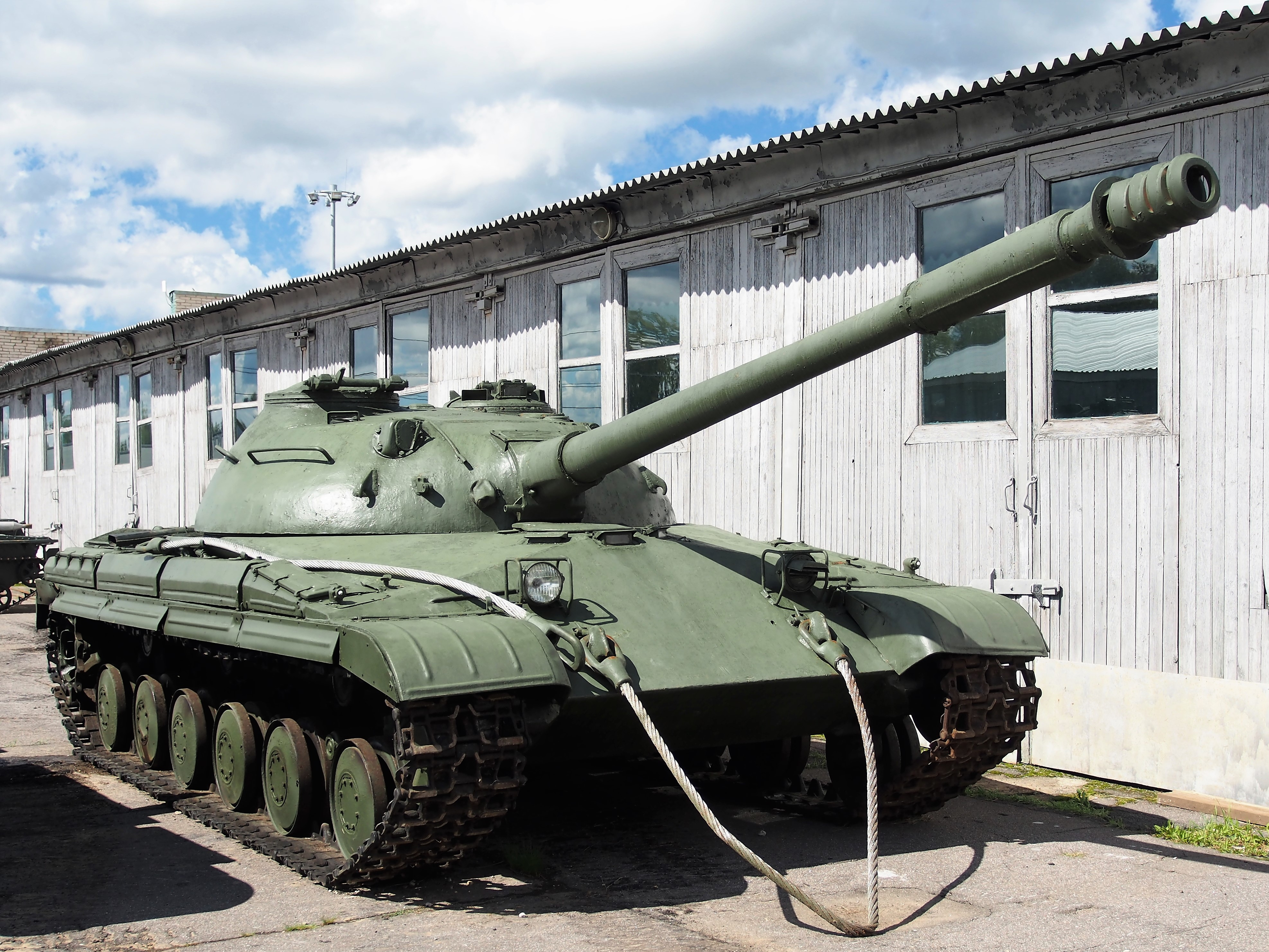 Object 430 (T-64 prototype) in Kubinka Tank Museum